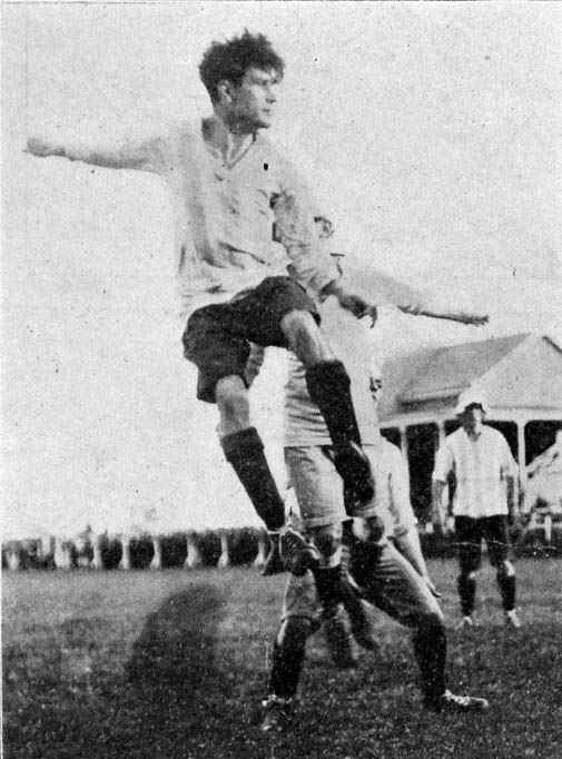 Racing Club player Francisco Olazar, heading the ball in a match v. San Isidro.